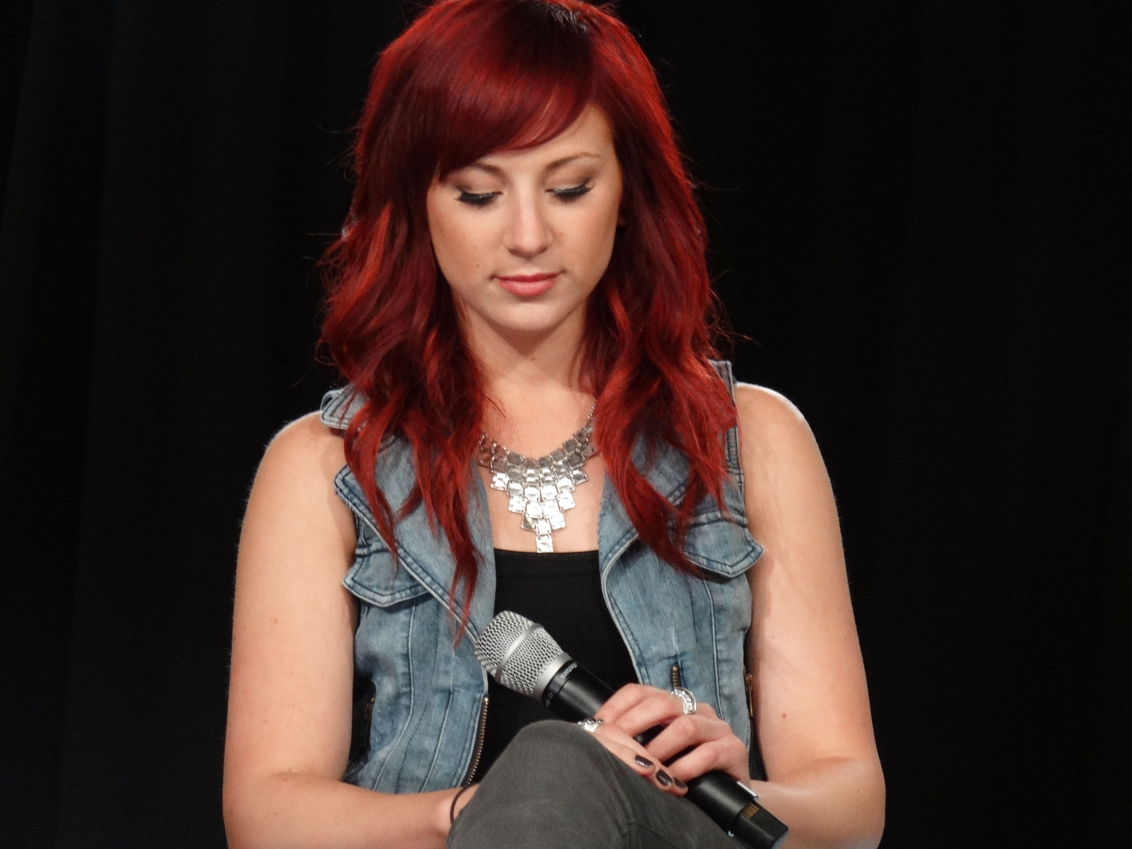 Jen Ledger at the Road to Rise VIP Experience